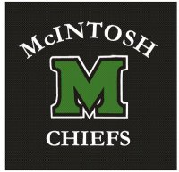 McIntosh High School Primary Logo